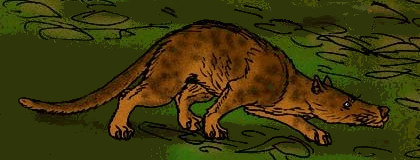 Various creodonts of the Eocene of Colorado, United States. From top, Tritemnodon, Patriofelis, Machaeroides, and Sinopa